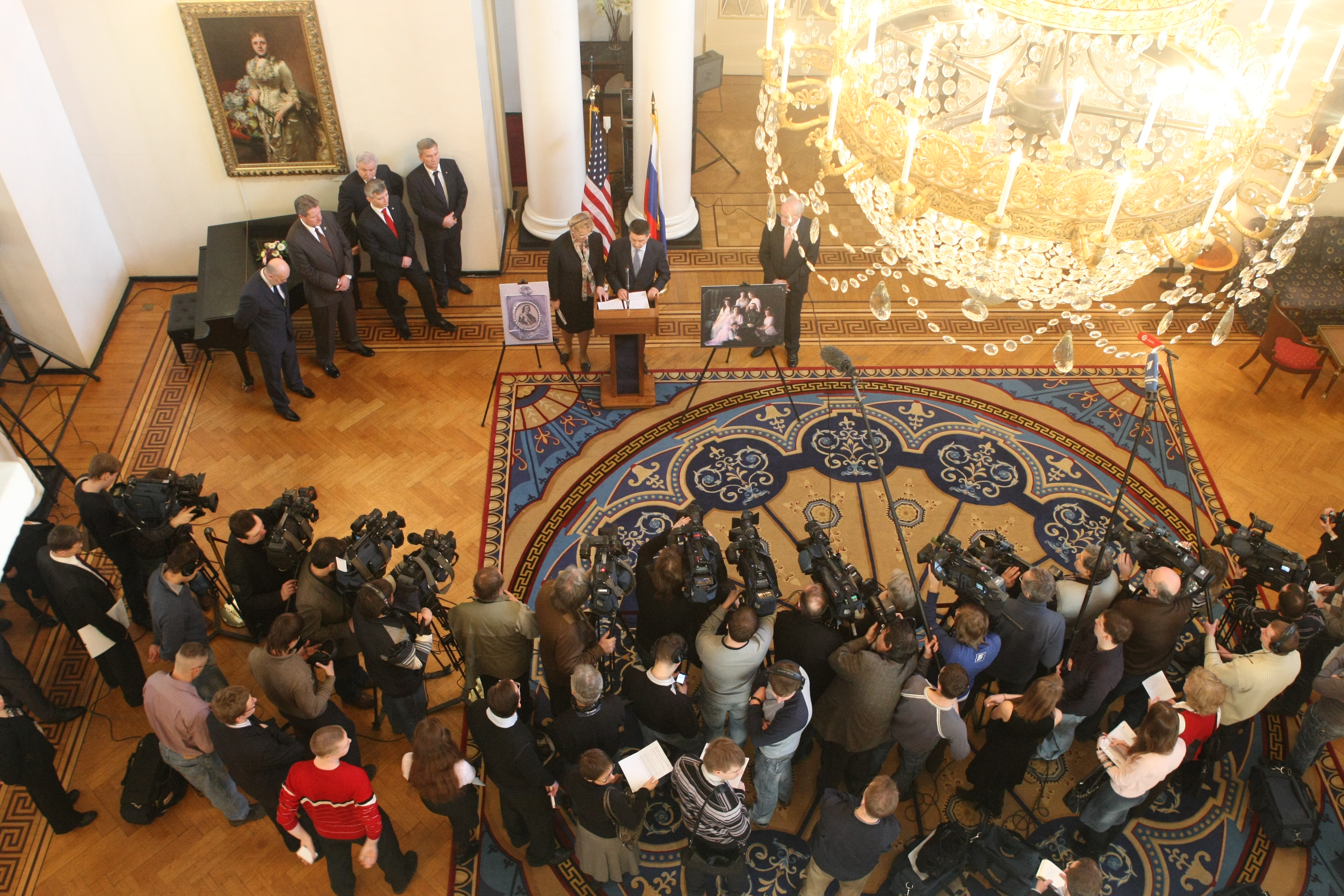 Ceremony at Spaso House for the return of a medallion owned by the Czar's family stolen from the Hermitage Museum and recovered by the joint operation of U.S. Customs and the Russian Agency for the Protection of Cultural Property